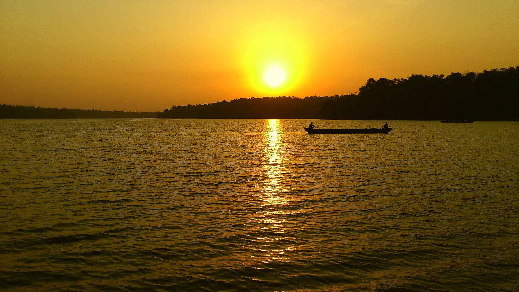 The serene beauty of Sasthamcotta Freshwater Lake